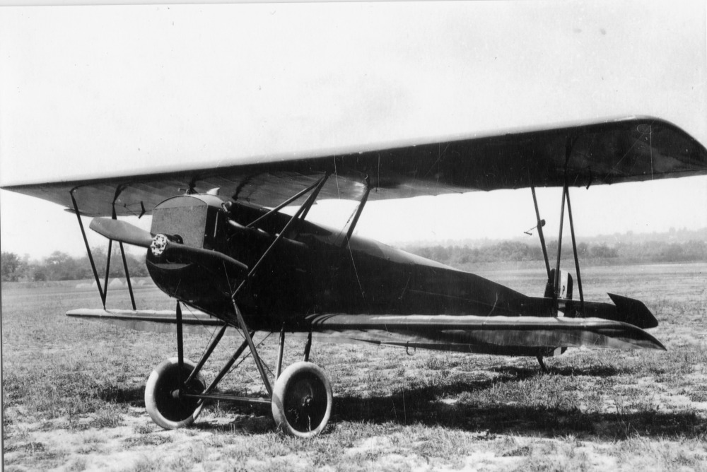 PictionID:41898446 - Title:Ray Wagner Collection Image - Catalog:16_000669 Fokker PW-6 68575 - Filename:16_000669 Fokker PW-6 68575.tif - - - - Ray Wagner was Archivist at the San Diego Air and Space Museum for several years and is an author of several books on aviation --- ---Please Tag these images so that the information can be permanently stored with the digital file.---Repository: San Diego Air and Space Museum